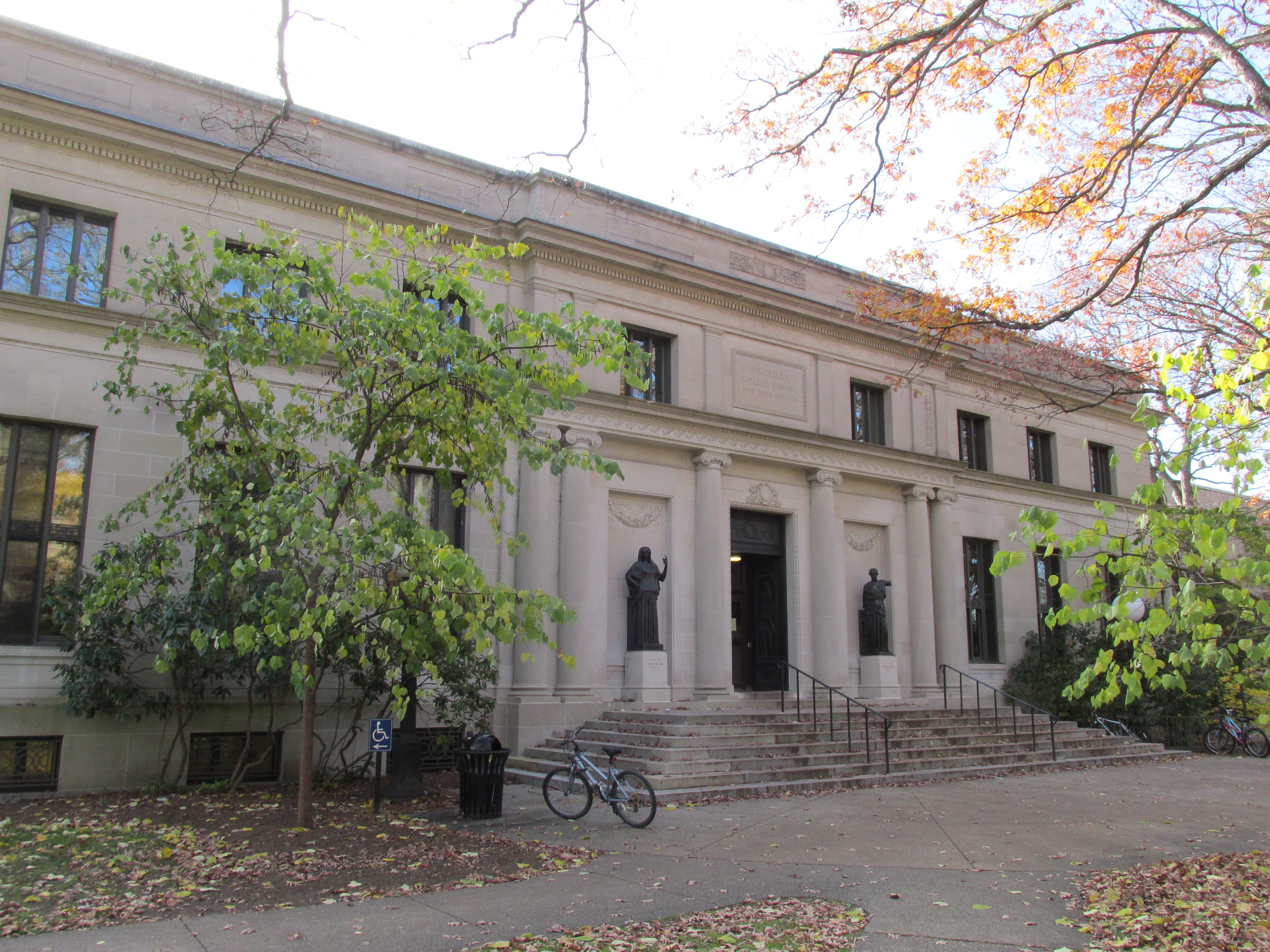 Wellesley College Library, Wellesley Massachusetts